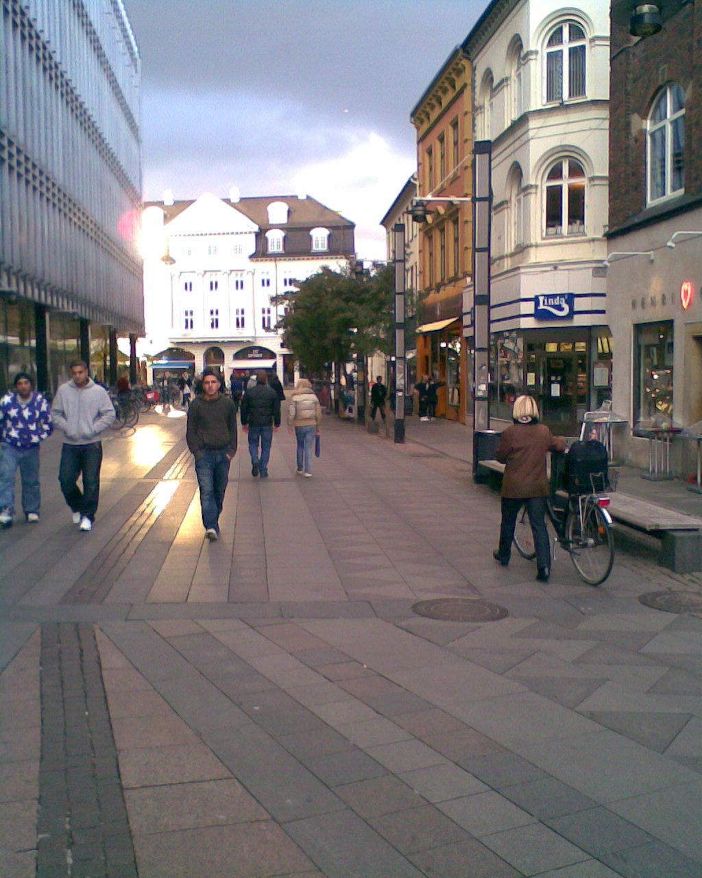 Immervad, Århus, Denmark